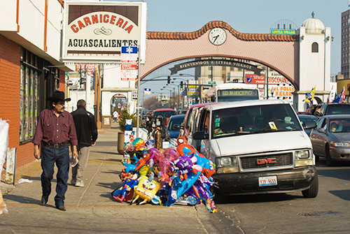 26th Street in the Little Village neighborhood in Chicago, Illinois with a restaurant of Carniceria Aguascalientes and the entrance gate.